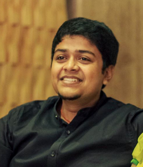 Composer of Vidiyum Munn, Marina & Yaar Bharathi